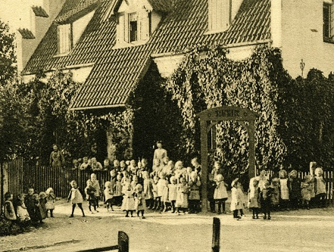 Children at Ordrup Asyl in Ordrup, Gentofte Municipality, Denmark